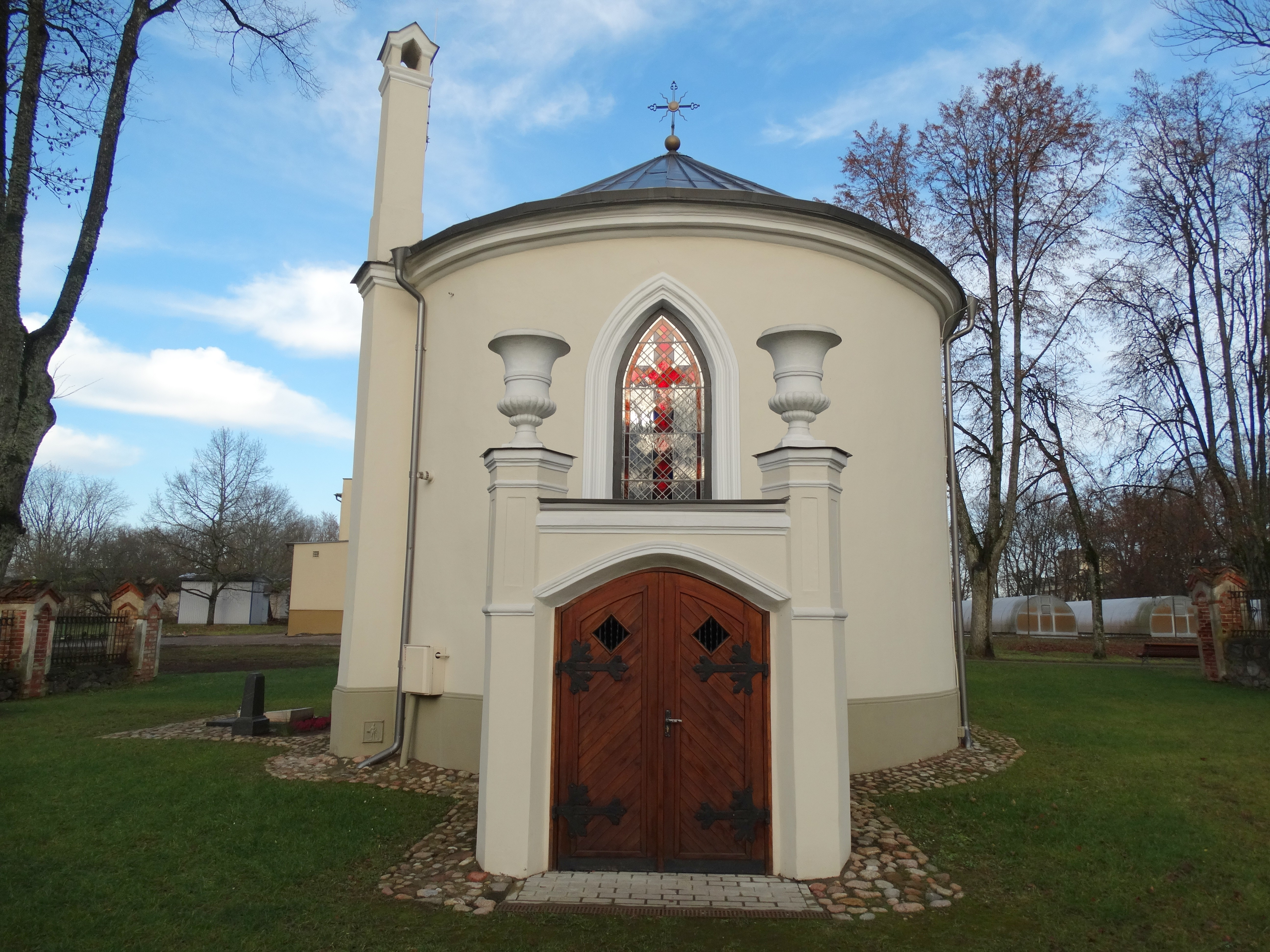 Tyszkiewicz family chapel, Trakų Vokė, Vilnius, Lithuania